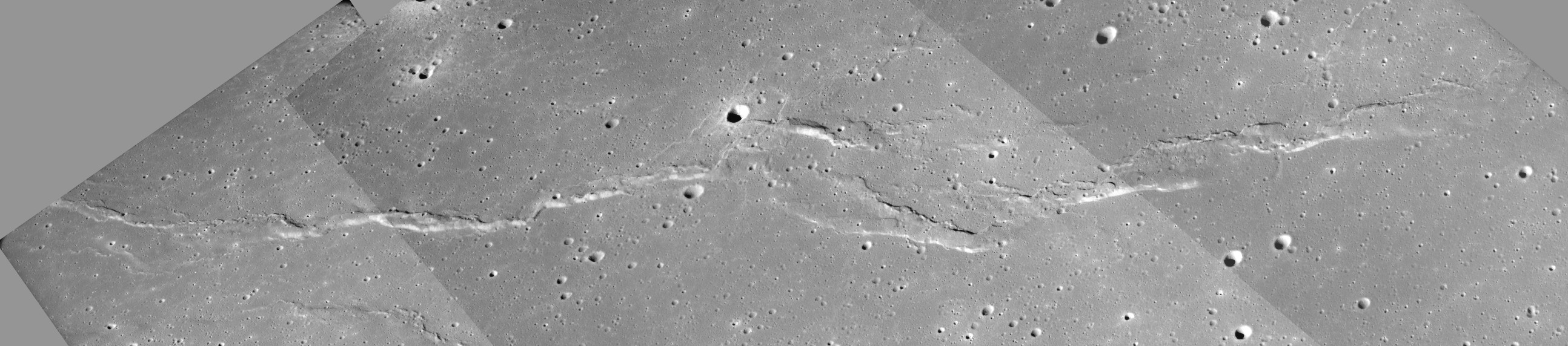 Oblique view facing south of most of Dorsum Buckland, in southern Mare Serenitatis, on the moon. Mosaic of four images taken by Apollo 15 panoramic camera.